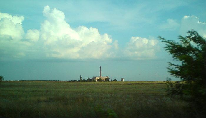 Built on the site of the village of Quarry Krasnogvardeysky region, Crimea